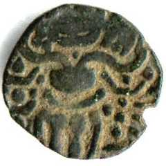 Created by me Jnumis 23:53, 26 February 2007 (UTC) This coin image has been taken from